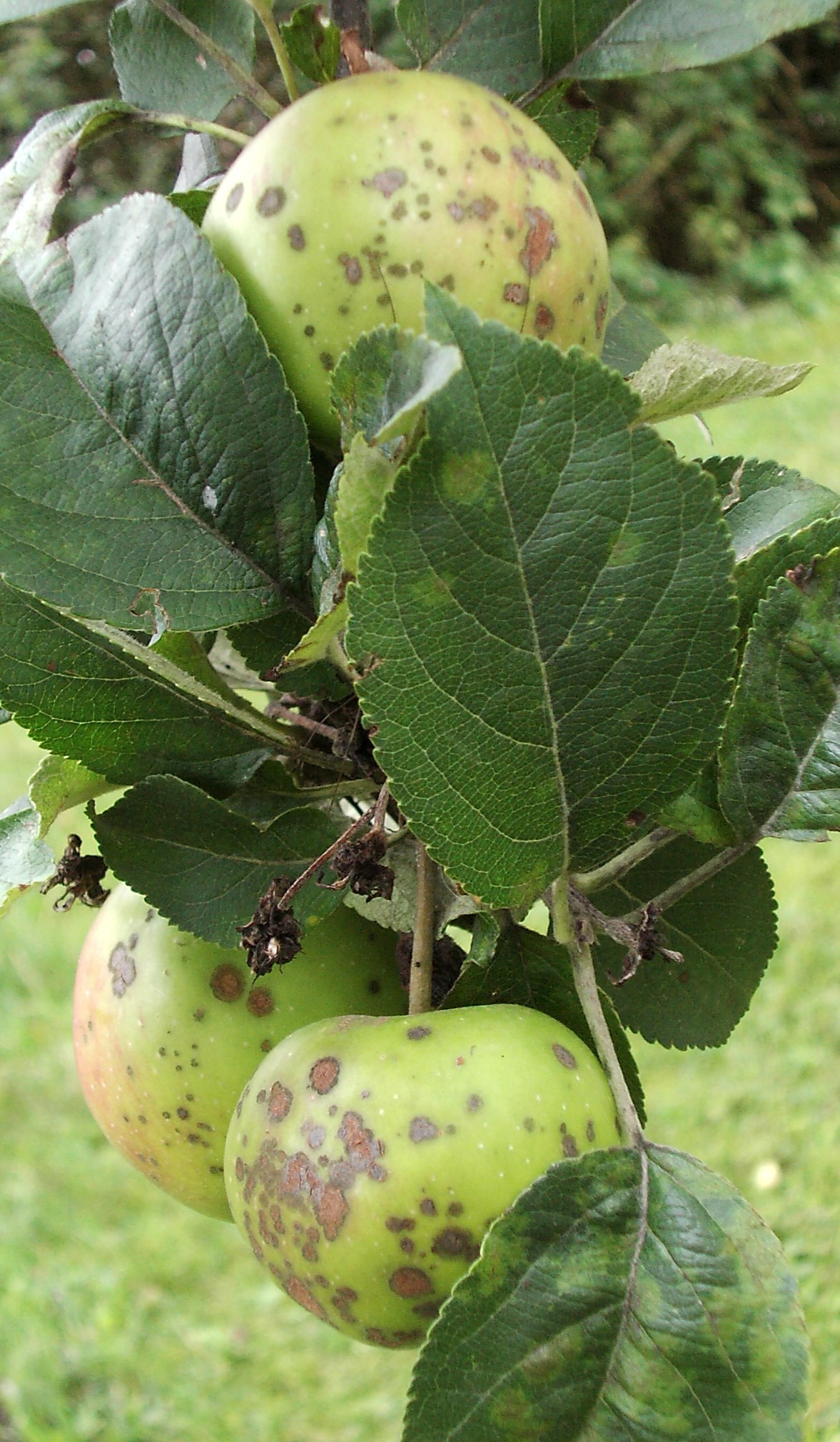 Apfelschorf Venturia inaequalis